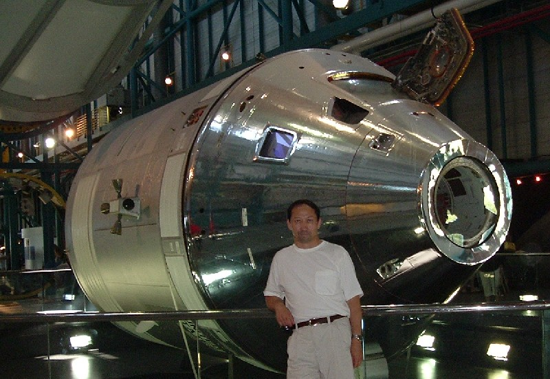 Dr.Erkin Sidiq